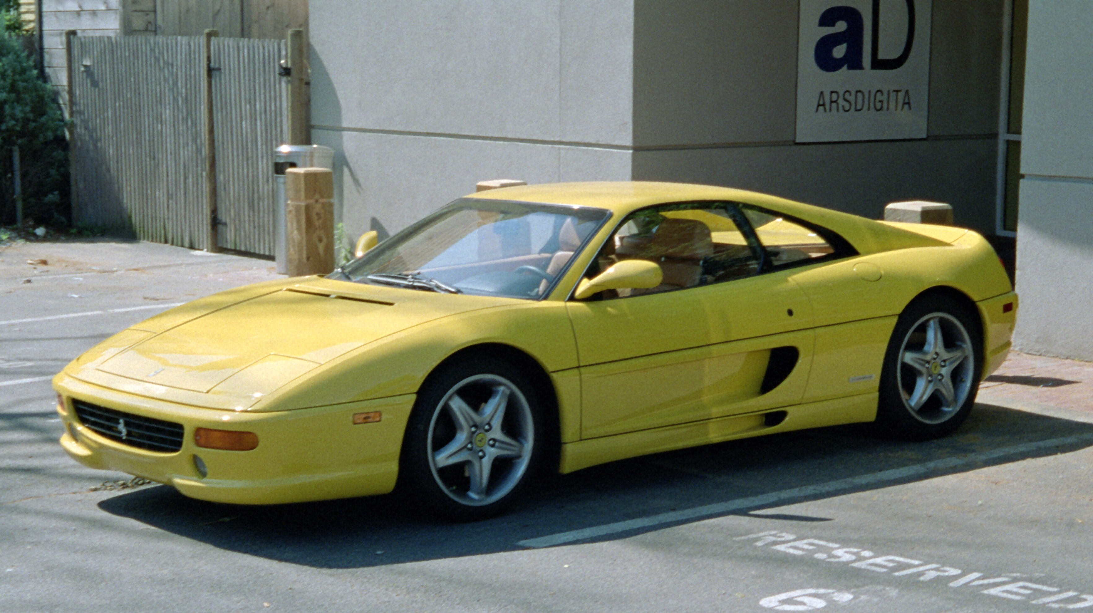 Ferrari F355 in front of the ArsDigita offices, Prospect Street, Cambridge, Massachusetts